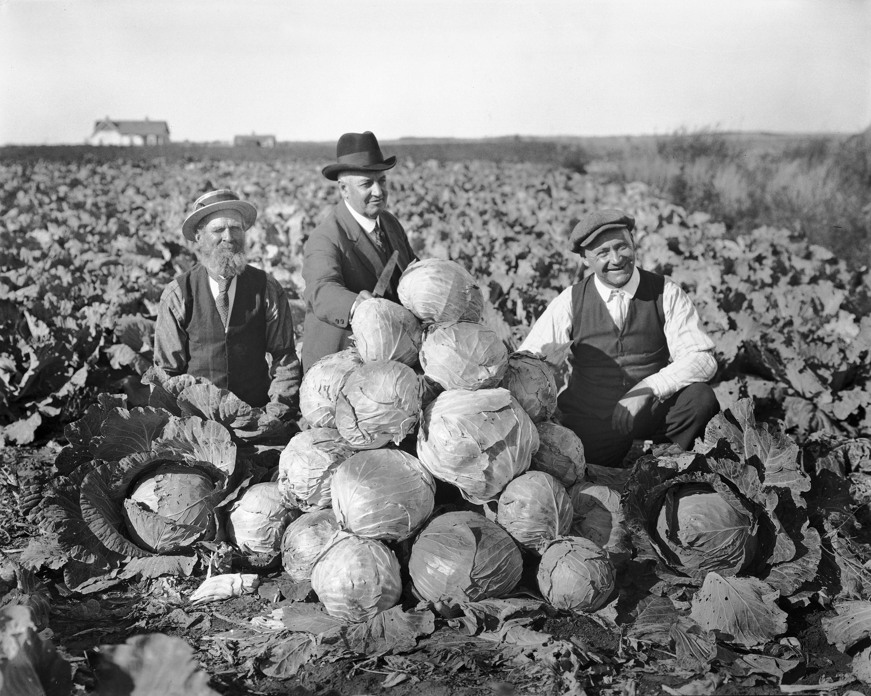 Provincial Archives of Alberta, P673.